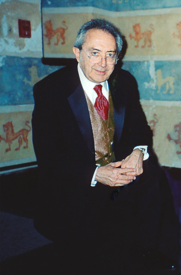 Photo of Manuel Isaías López